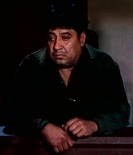 Chris-Pin Martin in A Star Is Born - cropped screenshot